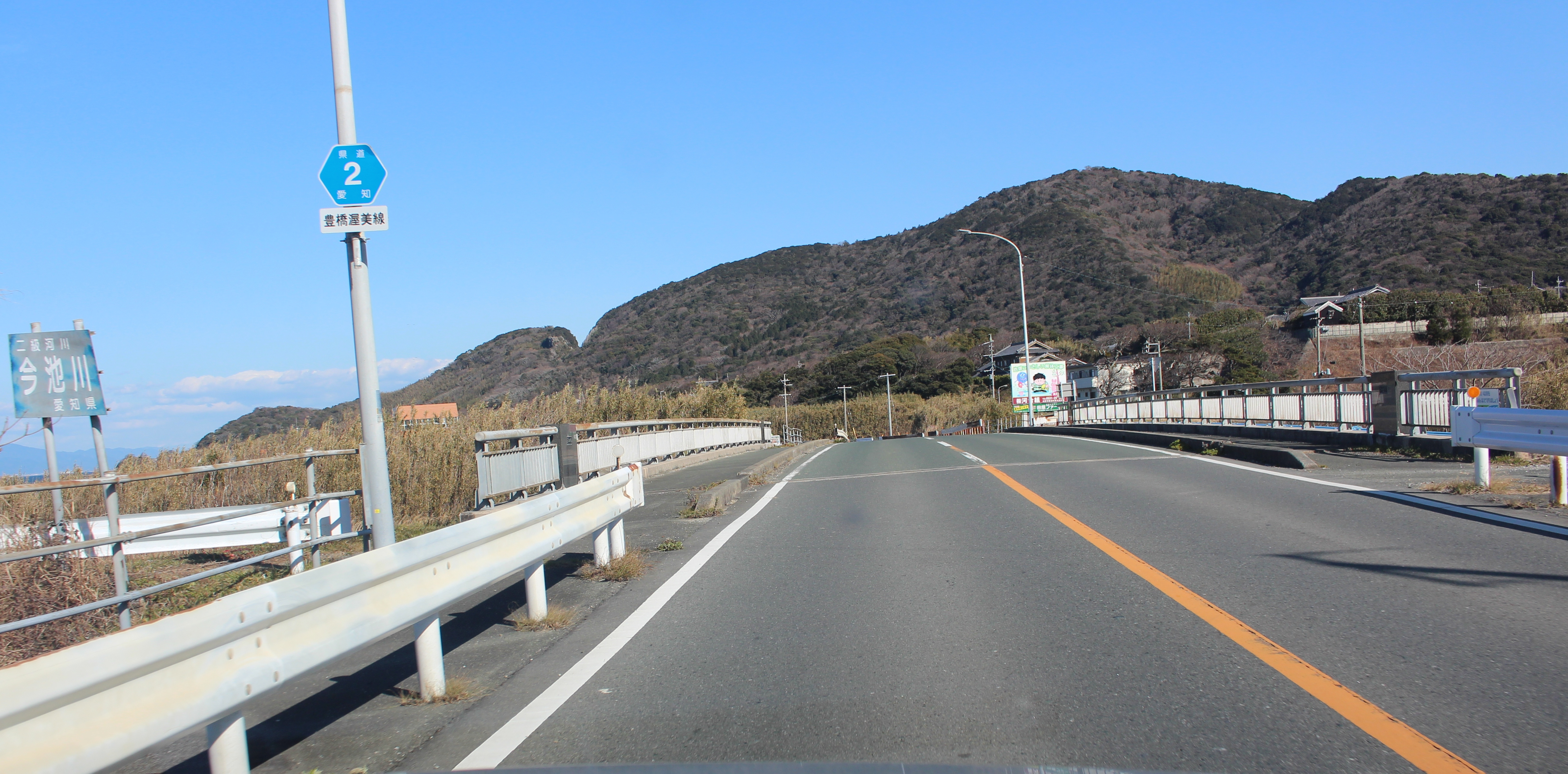 Aichi Prefectural Road Route 2 and bridge over the Imaike River in Tahara, Aichi prefecture, Japan.